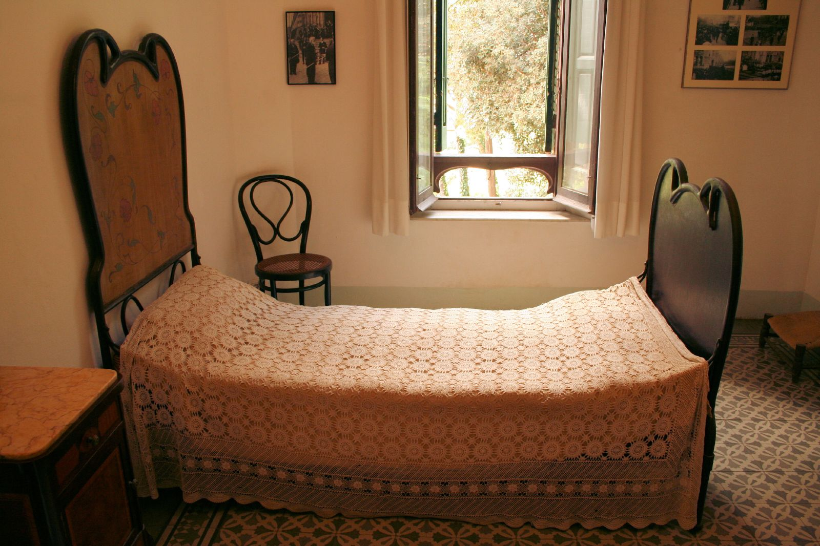 Gaudi's bedroom in his house in Park Güell, Barcelona.